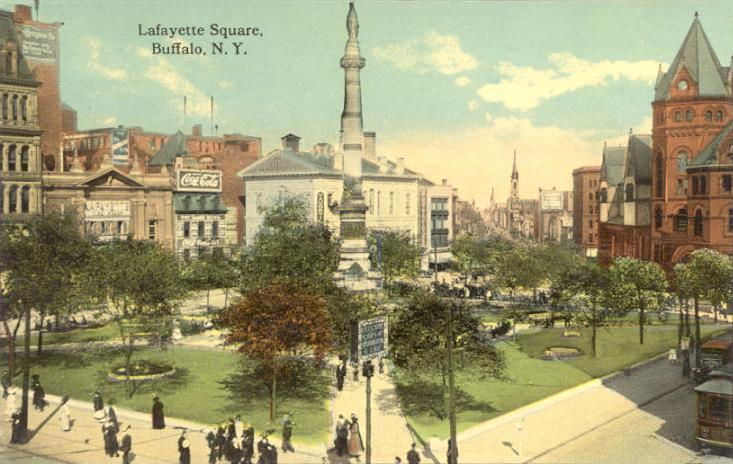 Lafayette Square, Buffalo, New York; from a c. 1912 postcard.